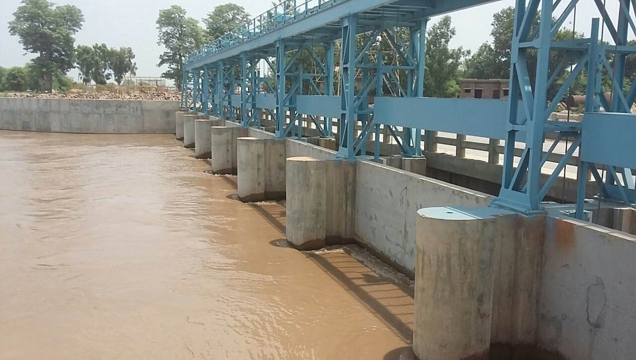 Balloki-Sulemanki Link Canal gets water from River Ravi at Balloki and feeds it into River Sutlej at Sulemanki